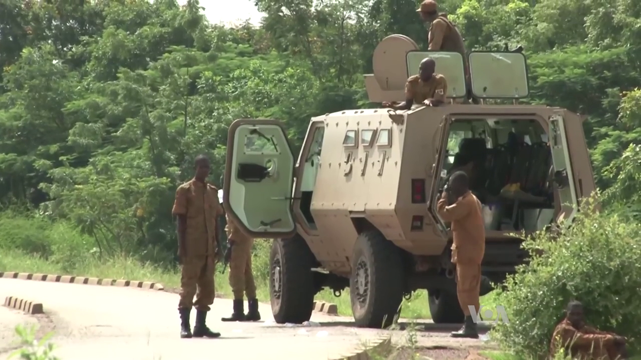 An armored personnel carrier ACMAT Bastion of the Burkinabé loyalist Army during the 2015 coup d'état, near the rebel military camp. 29 Nov 2015